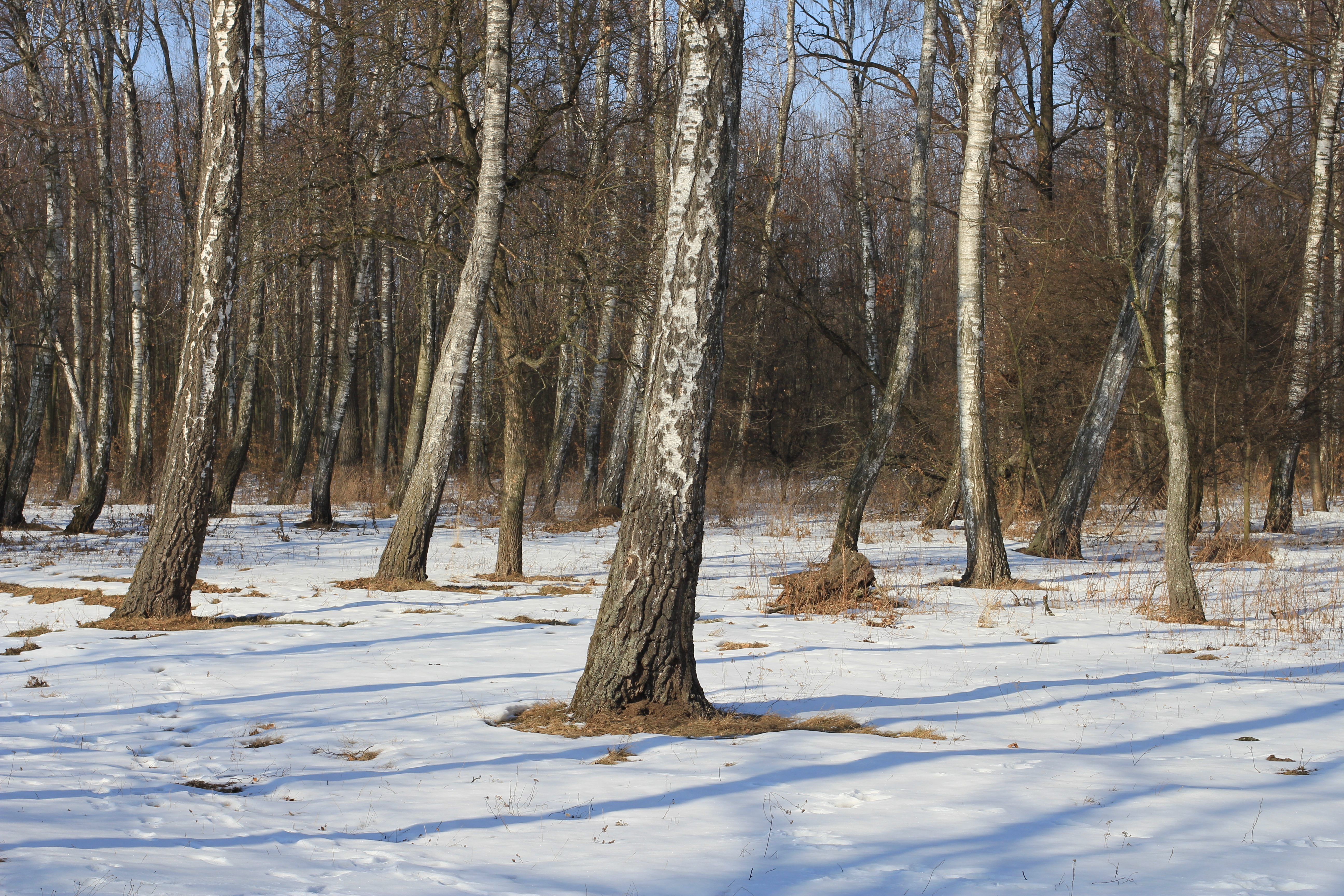 Silver birches (Betula pendula). Birchwood near the settlement Slavne. Vinnytskyi Raion, Ukraine.